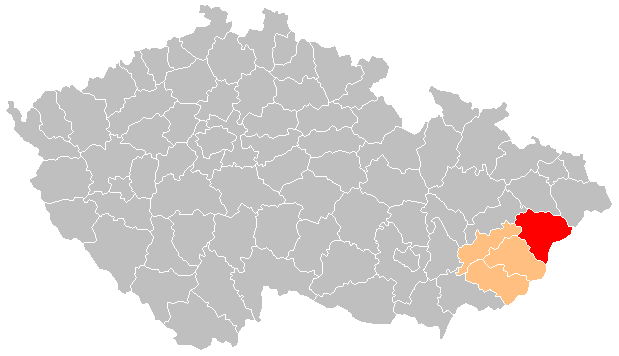 District of Vsetín